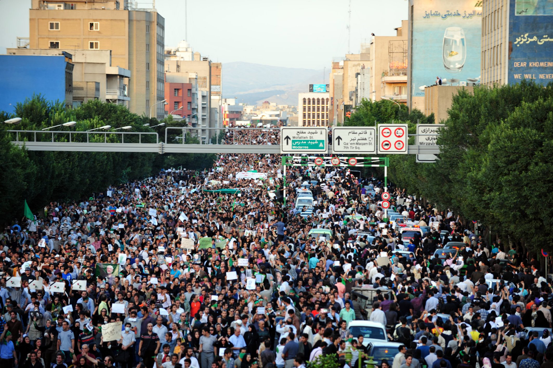 27e Khordad (June 17th) Haft-e Tir Square (and around streets) More photos here: Viva Iran!